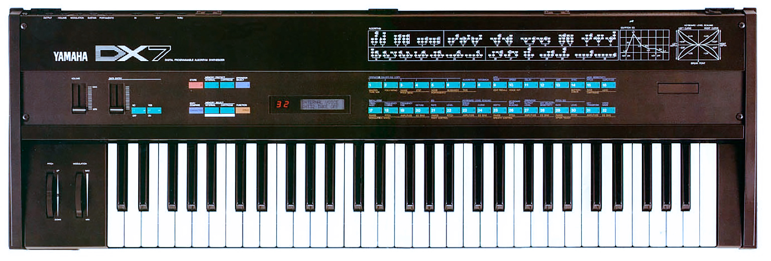 photo